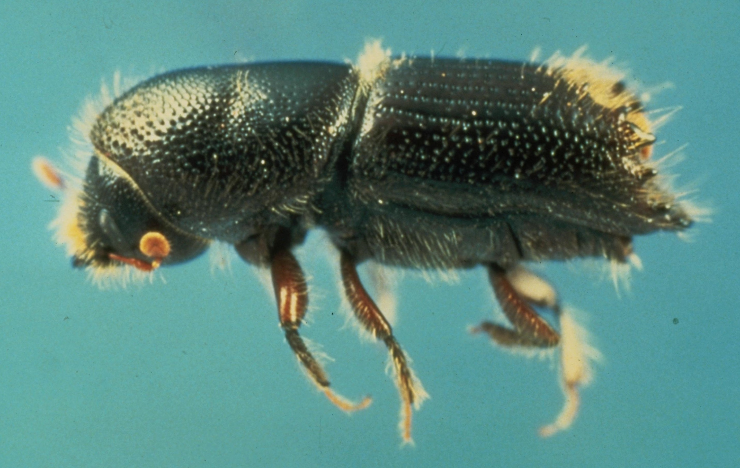 Ips calligraphus, USA